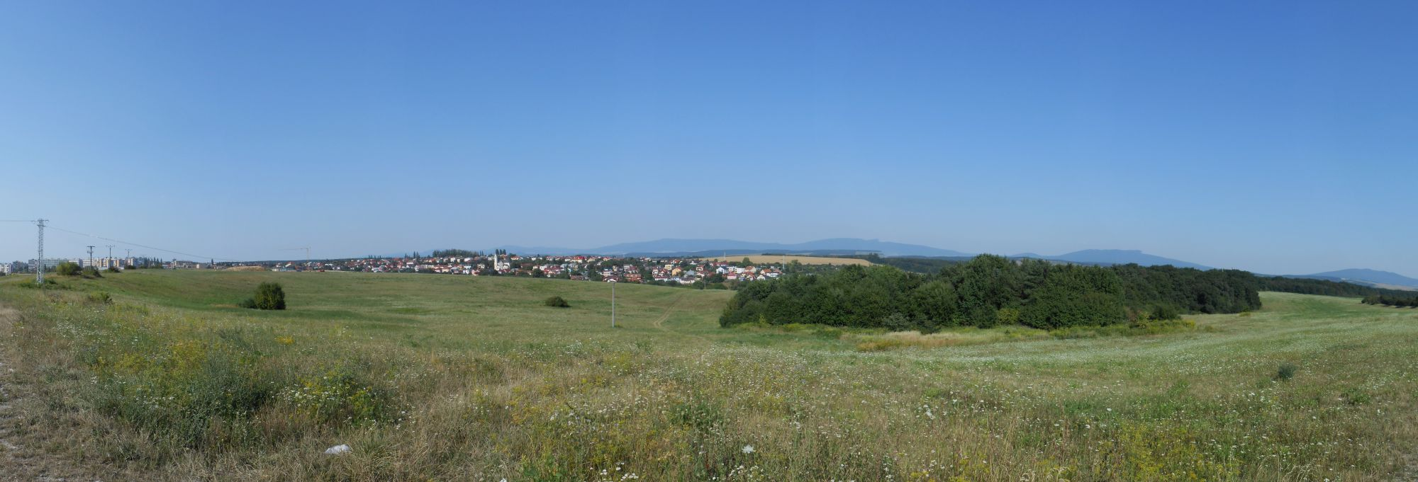 Panoramic view on the village